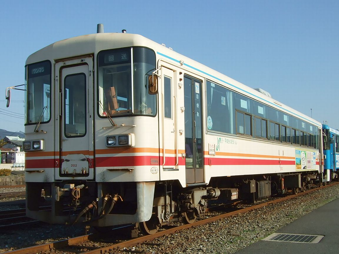 Heisei Chikuho Railway 200 series DMU #202 at Kanada Depot in Fukuchi Town, Fukuoka Prefecture, Japan